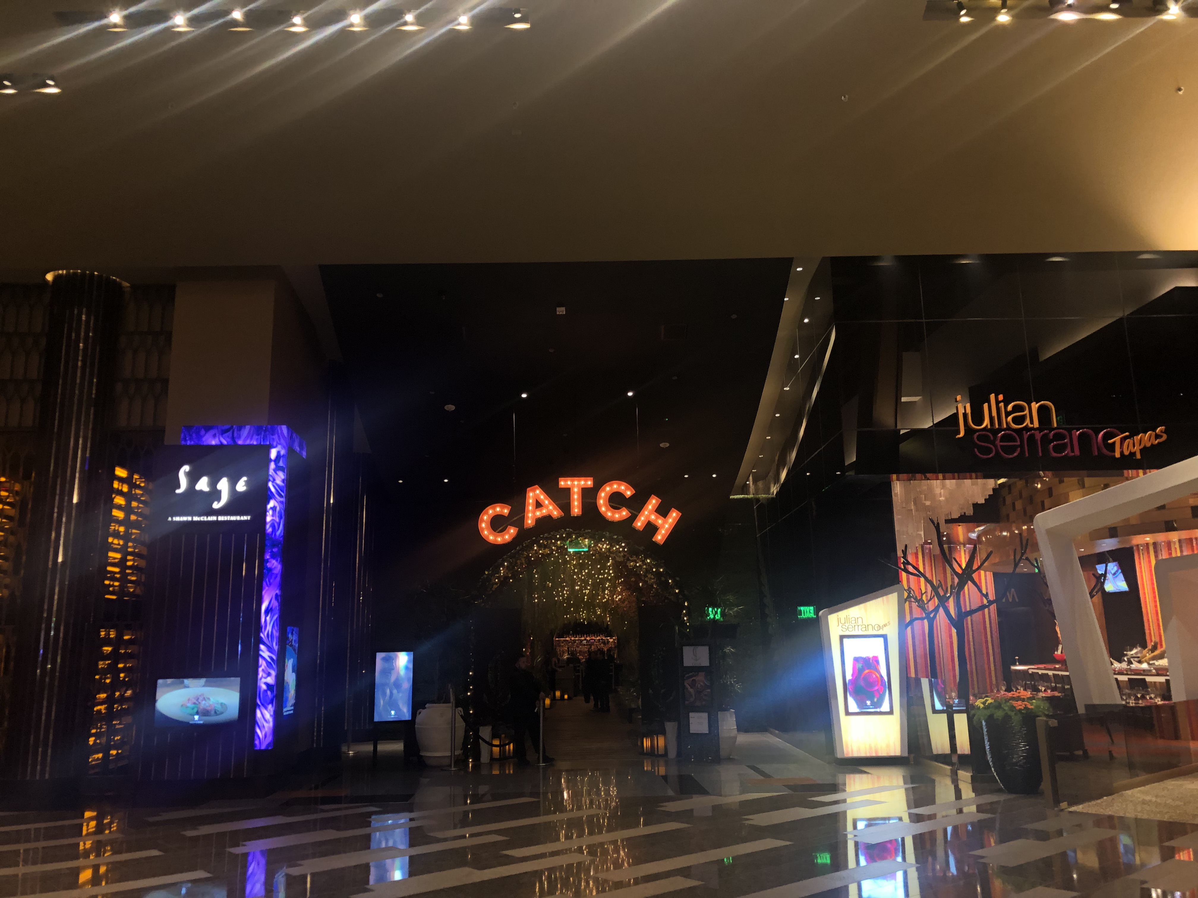 Catch, located in-between Sage (New American) and Julian Serrano (Spanish Tapas) restaurants located in Aria Resort and Casino near the check in for the resort.